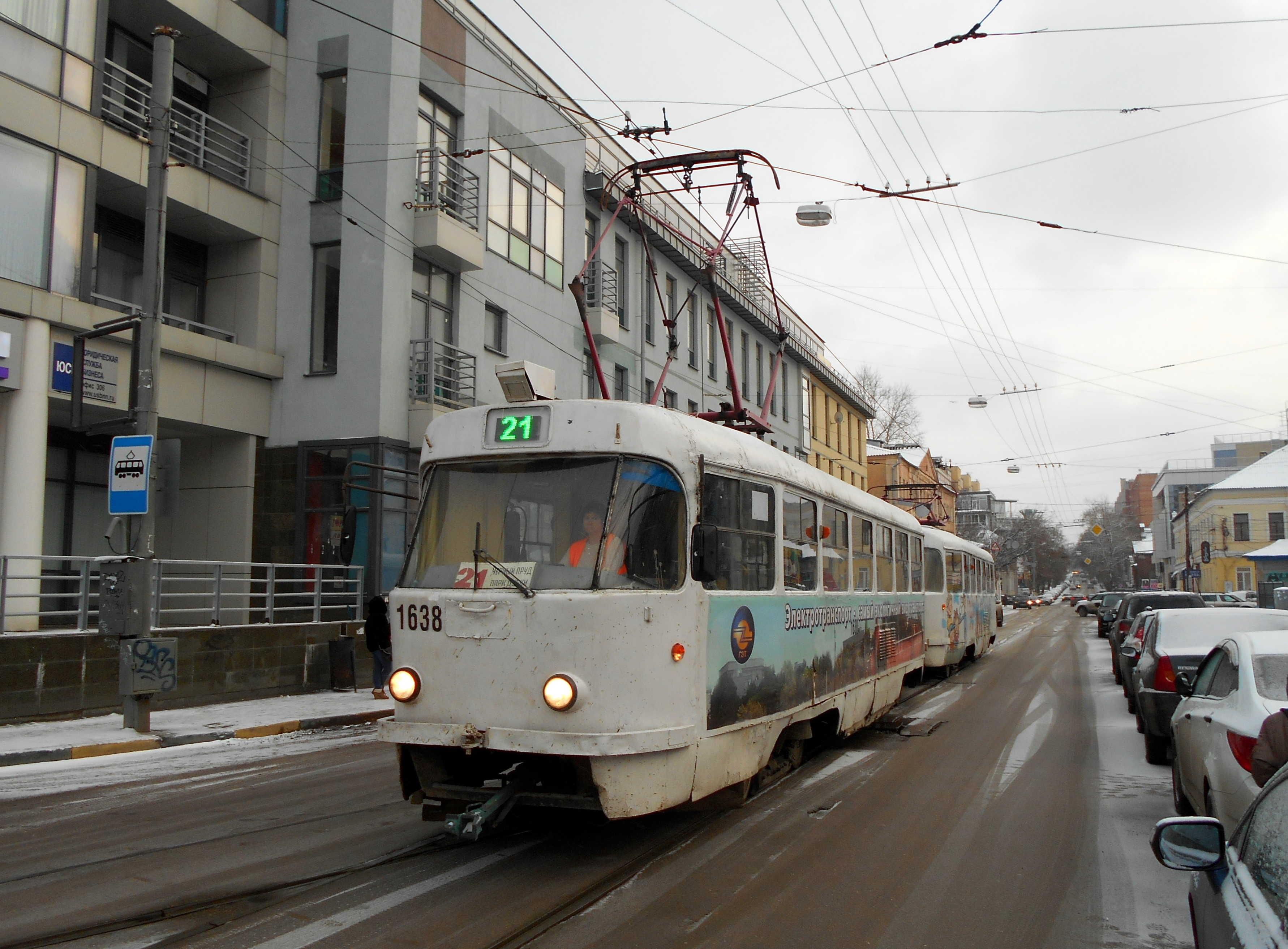 Tram Tatra T3 number 1638 in Nizhny Novgorod in Chornyi Prud terminus